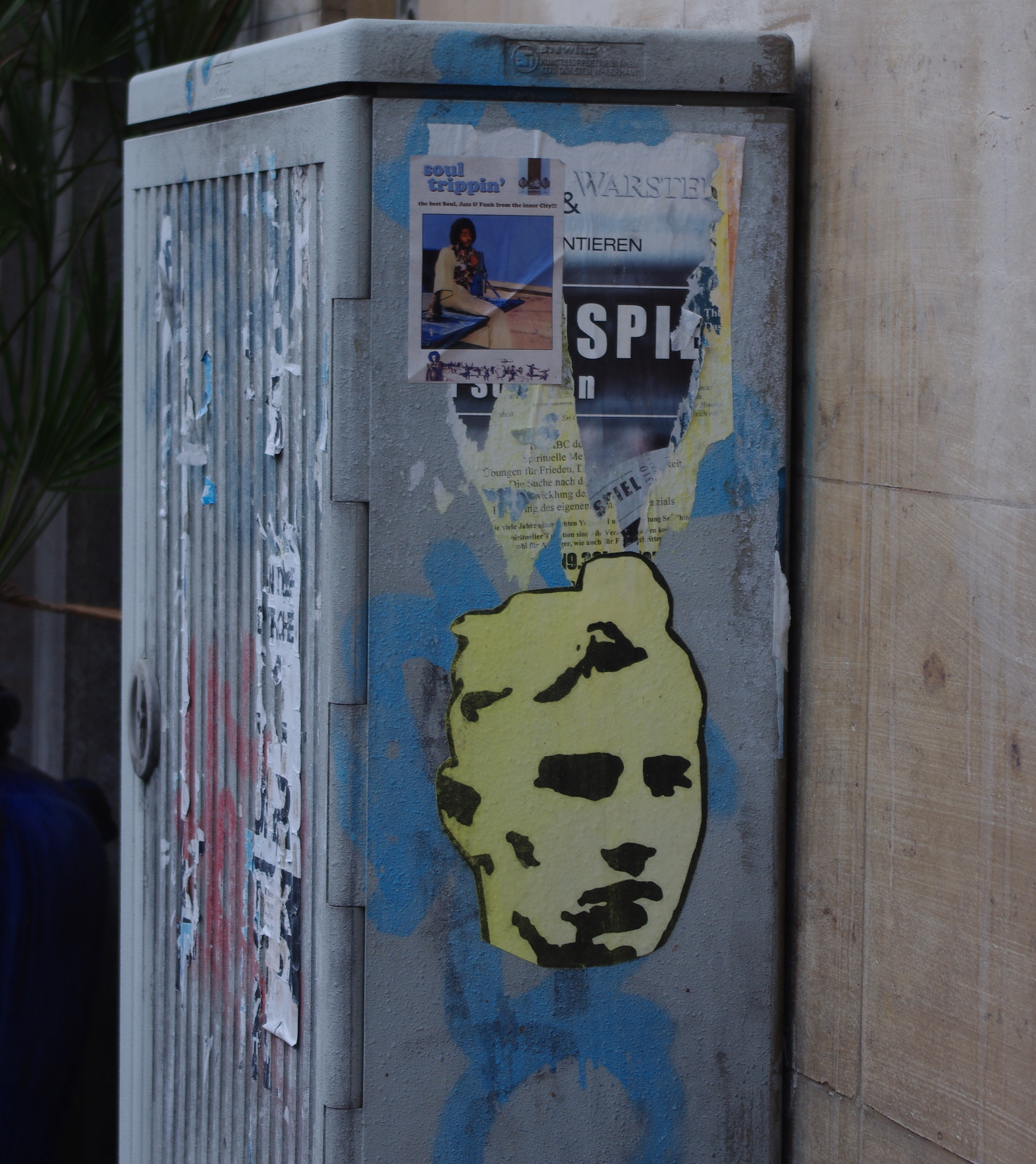 Street Art in Dortmund, graffiti portrait of August Lenz, logo of The Unity (a BVB ultras/supporters group); actually a large sticker imitating a real graffiti stencil